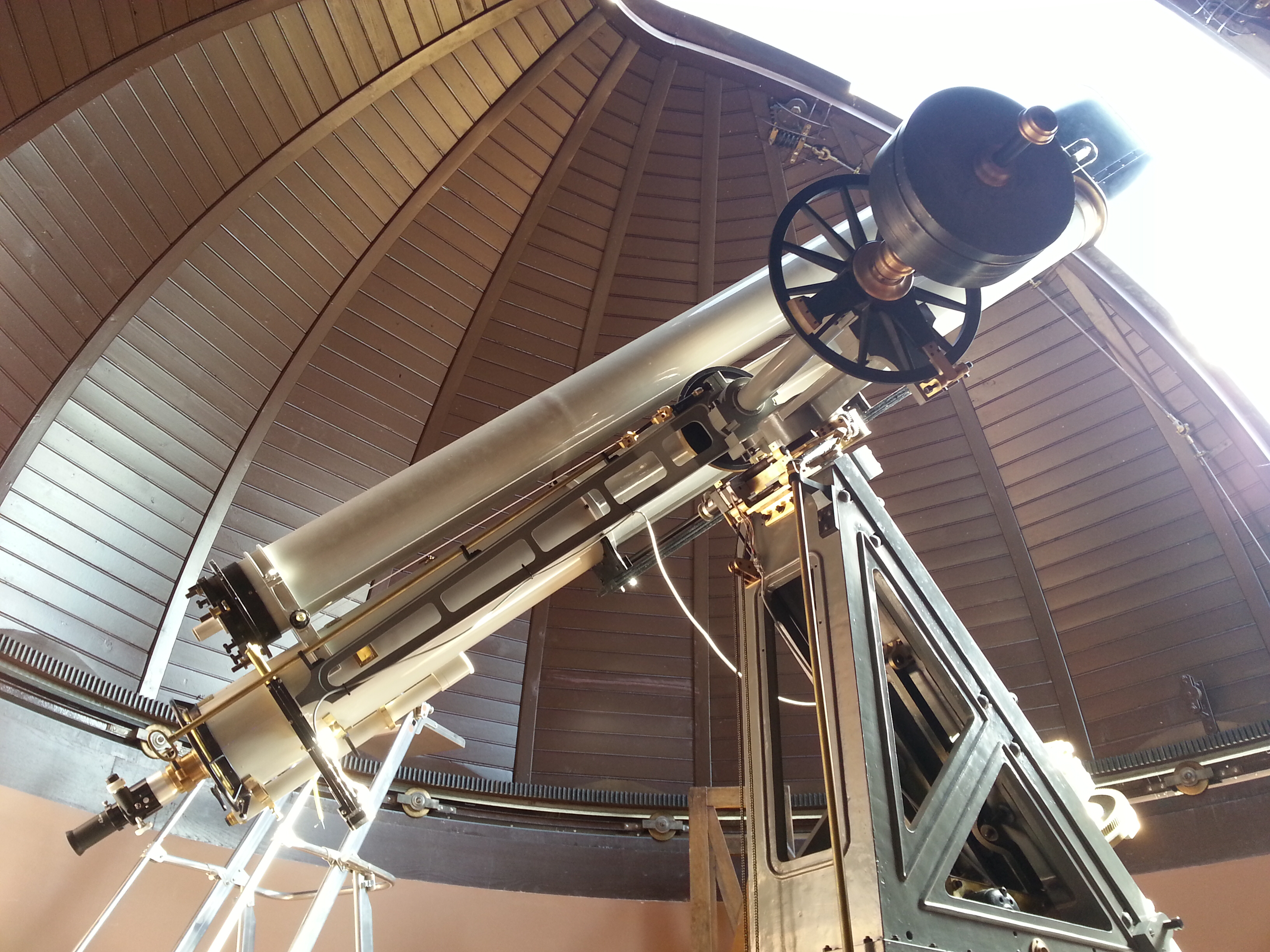 Lunette de Camille Flammarion, à l'observatoire de Juvisy